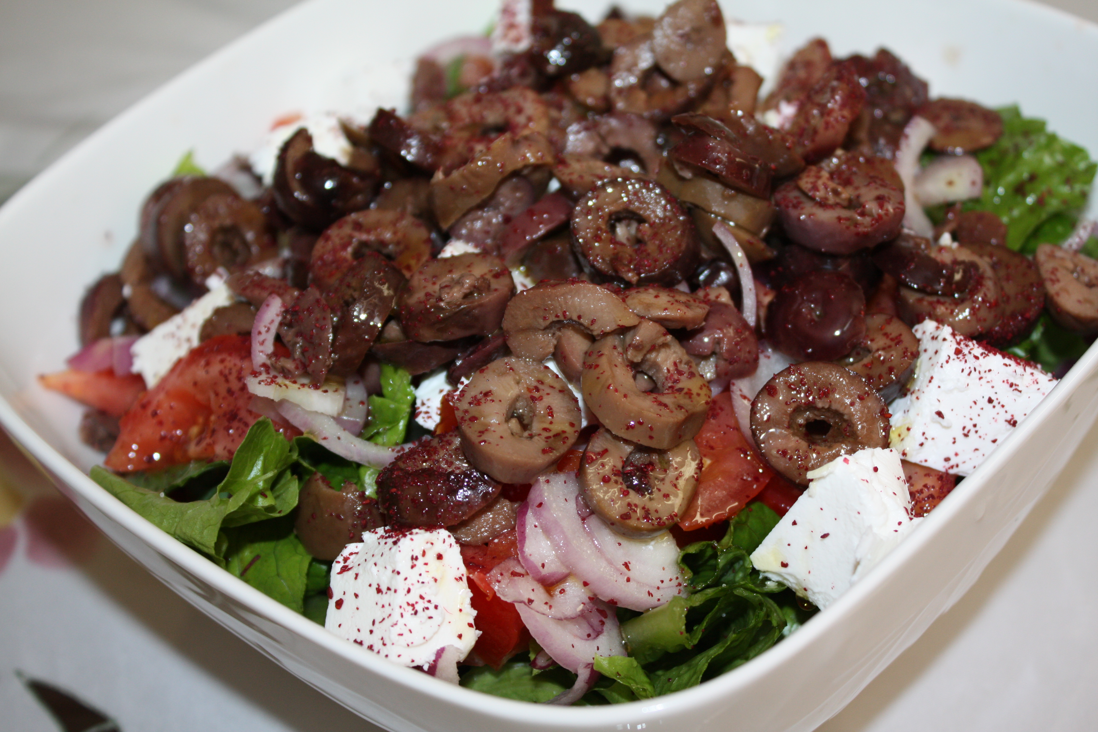 Greek salad: Lettuce, Tomato, Red onion, Feta cheese, Sliced black olives, Apple vinegar, Sumac, Salt, and Olive oil.